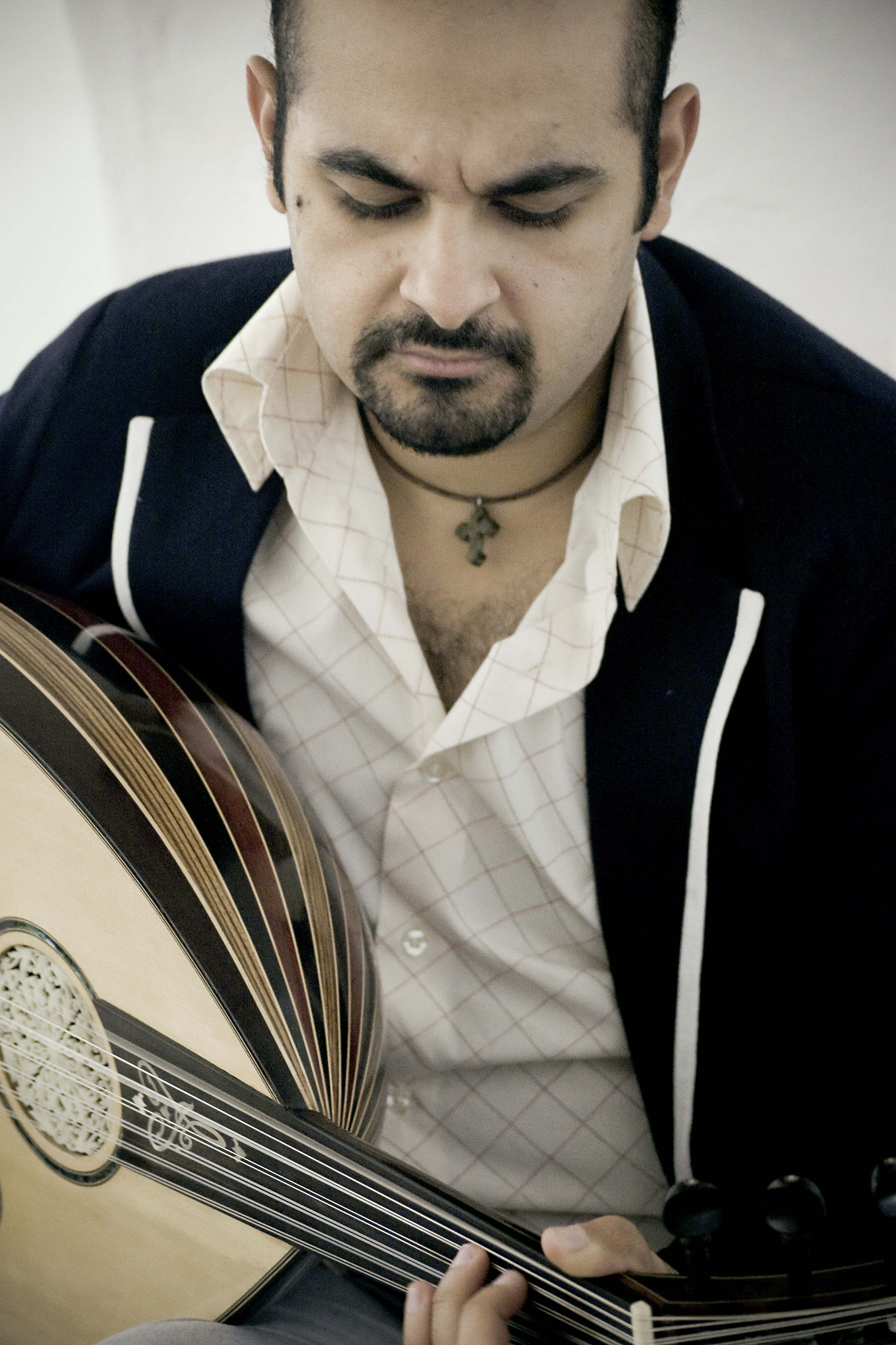 Joseph Tawadros 2011